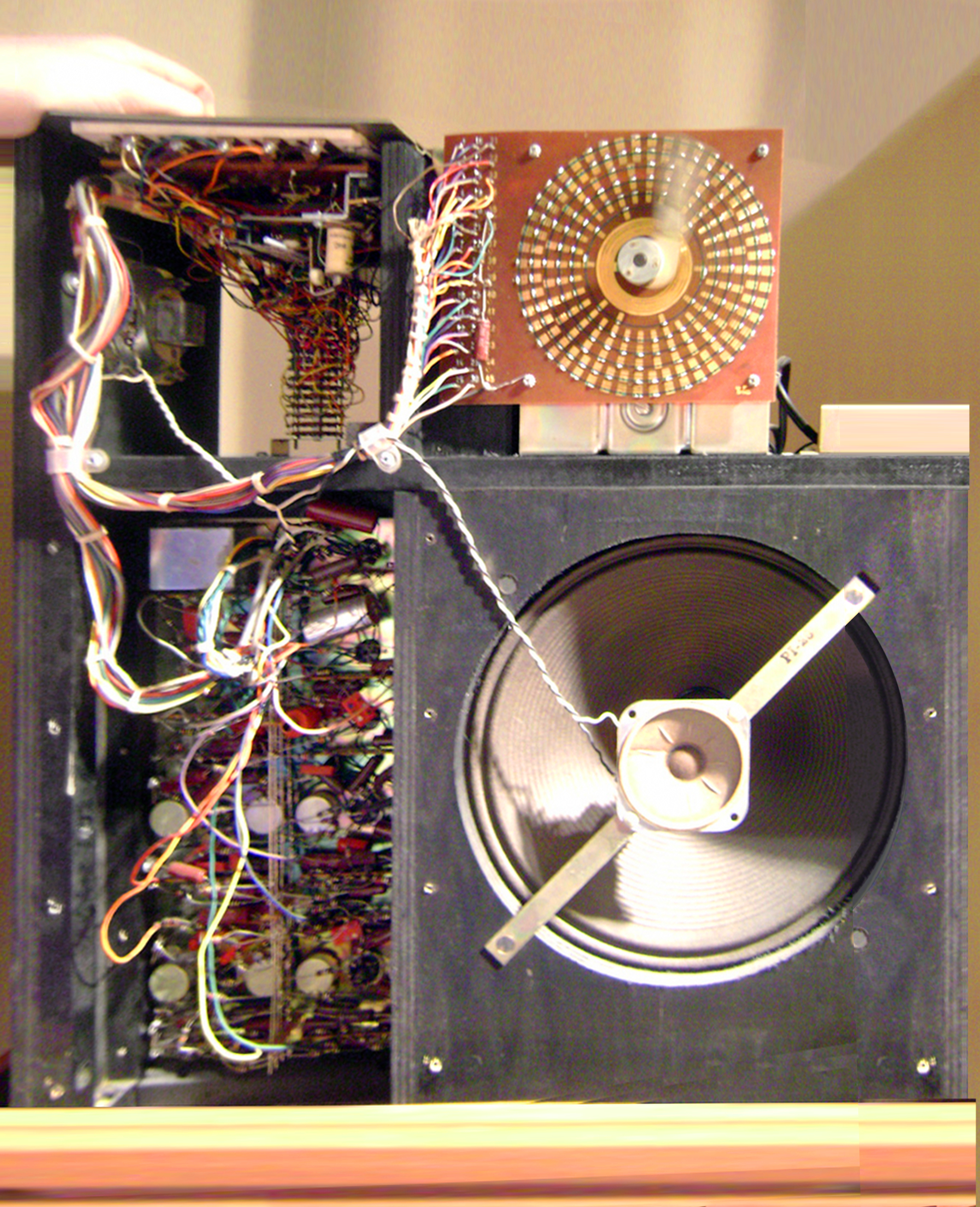 Wurlitzer Sideman drum machine 1957,[note 1] at the Cantos Foundation museum. One of the first drum machines ever built, it used solder connections to register a beat. This one has been fixed up heavily over the years in order to remain functional. It plays a sweet bossa nova beat. Visited Cantos Foundation in February 2009 and took a lot of pictures and video. S l o w l y uploading photos & videos. Footnotes ↑ According to the , the sales period of Wurlitzer Sideman was during 1959–1965.